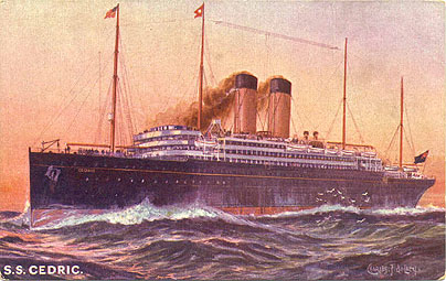 The White Star Liner Cedric